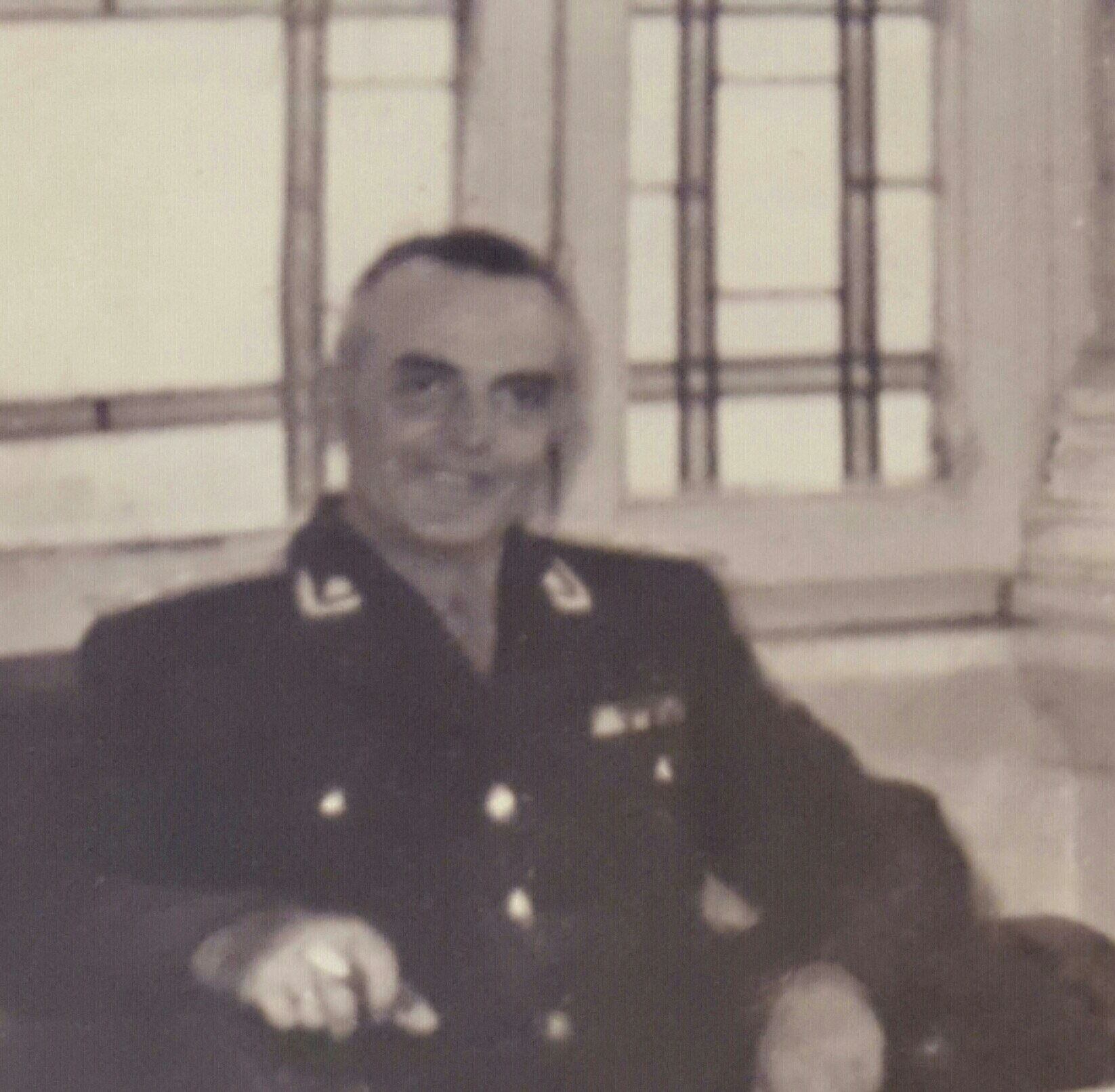 Siri Strazimiri ne nje darke me miqte e tijj